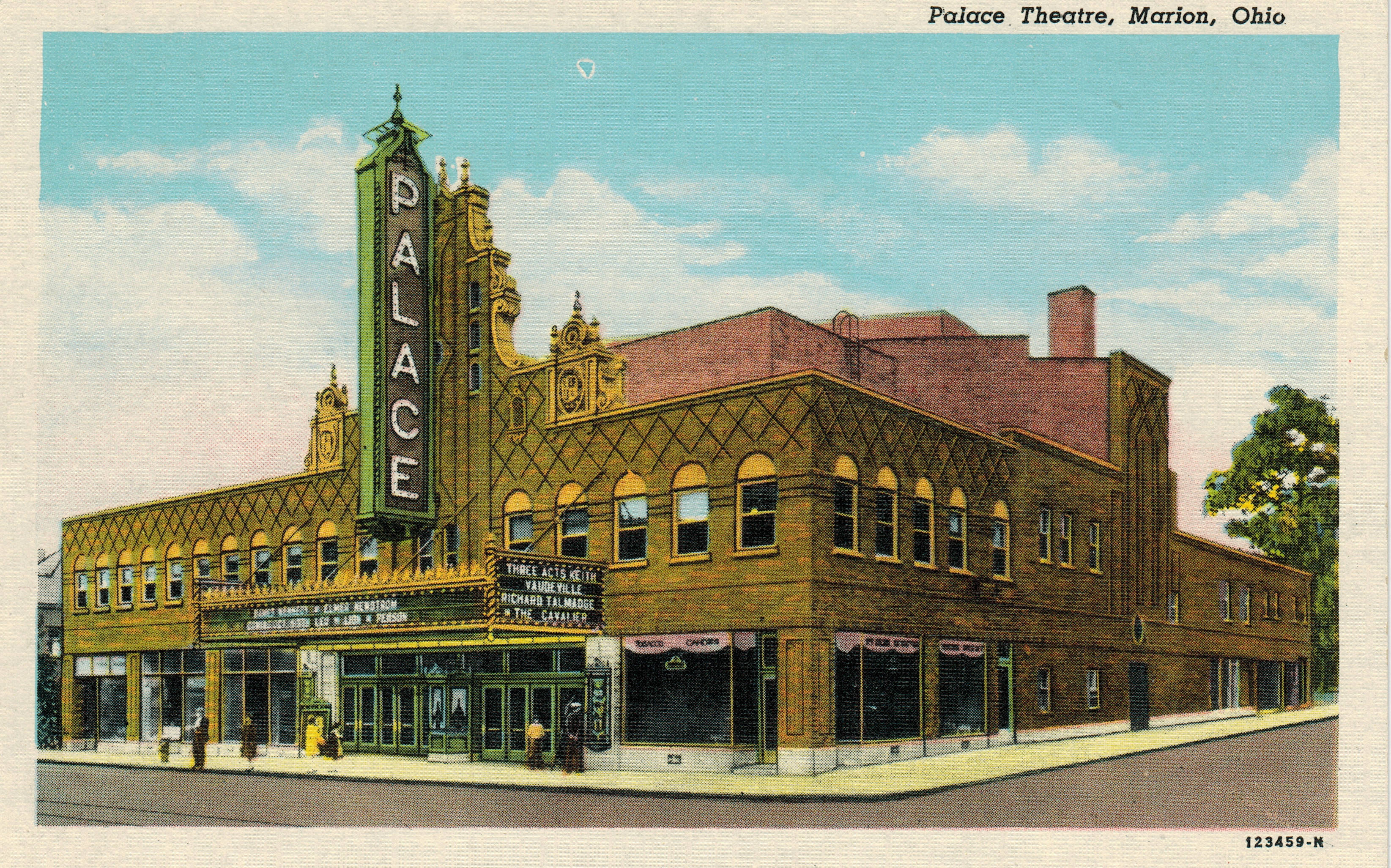 Image of the Palace Theater, Marion , Ohio.